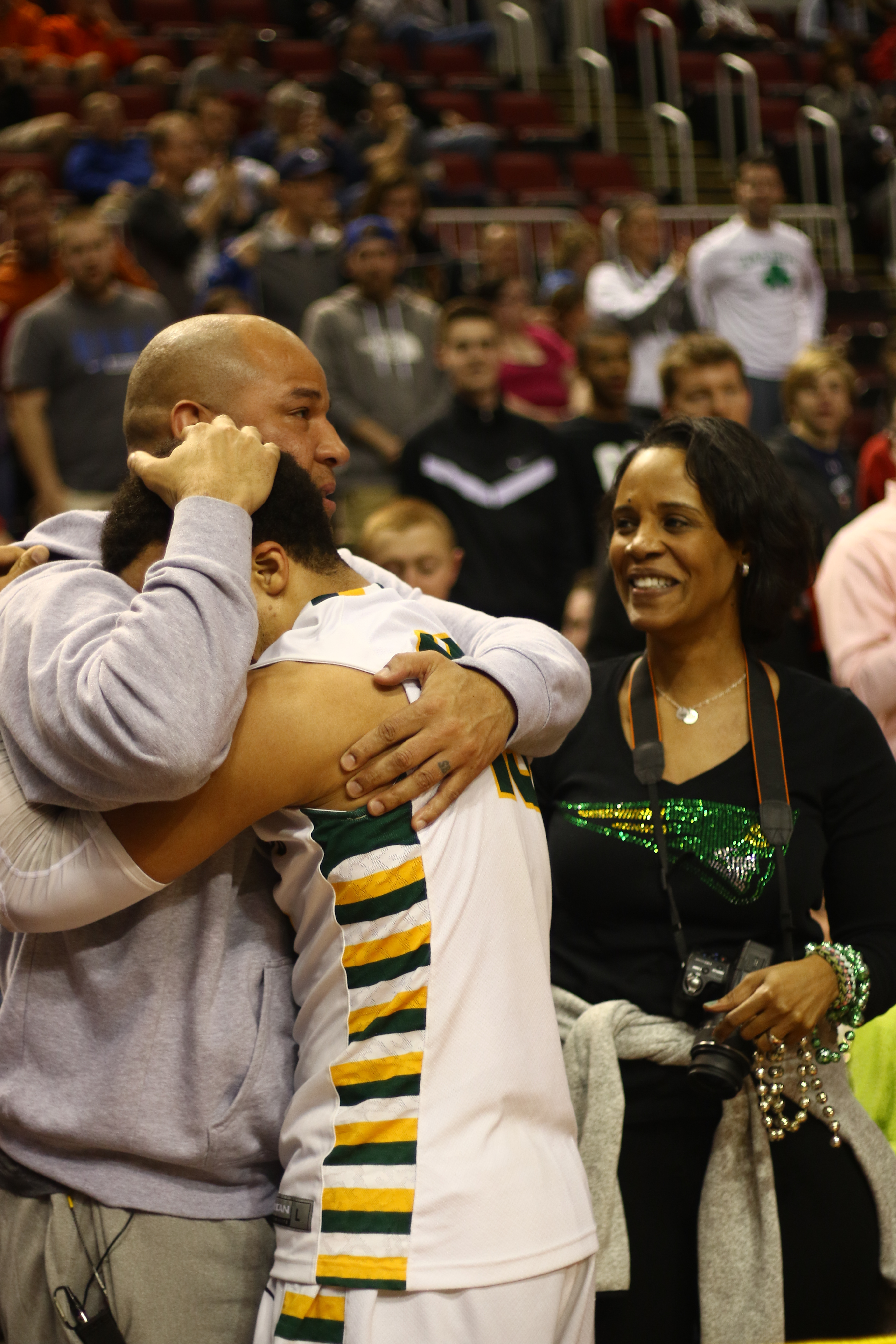 Rick Brunson hugs his son Jalen Brunson as Sandra Brunson looks on